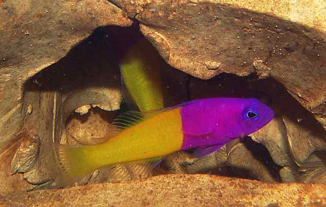 Pictichromis dinar